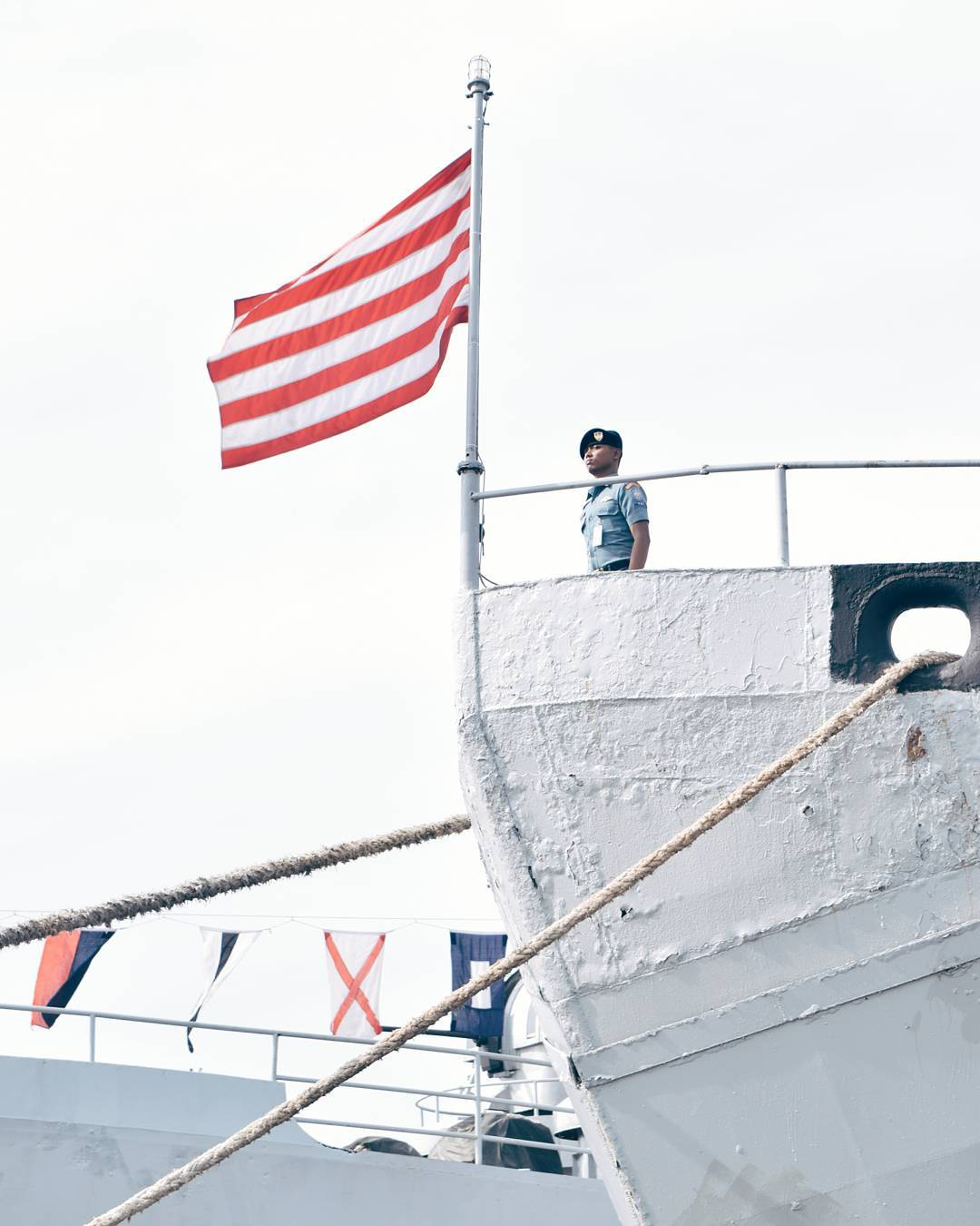 The red white stripes of Indonesian Navy's inspired from Majapahit's flag wich hung over their fleets